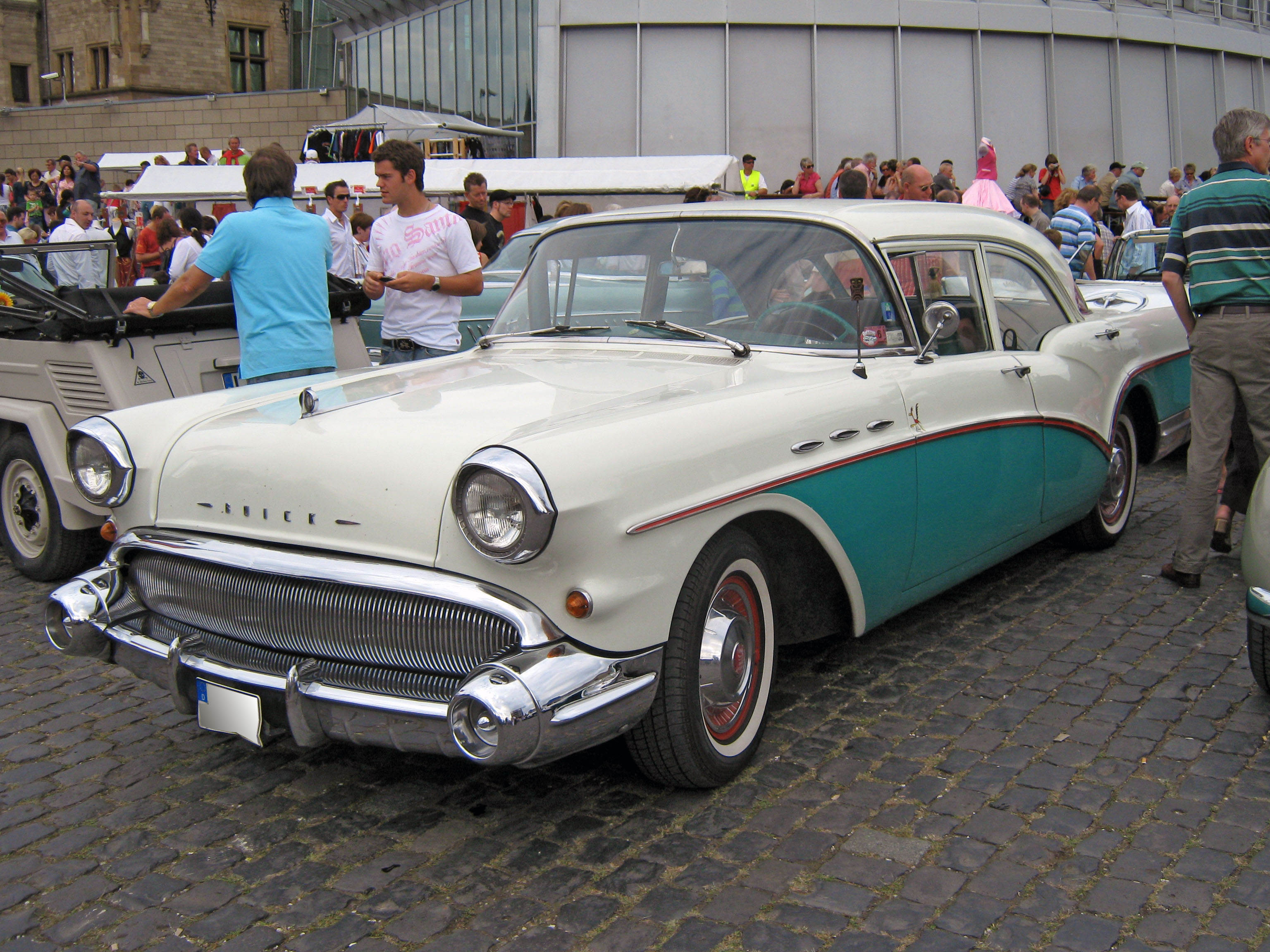 1957 Buick Special 4-Door Hardtop frontview.jpg